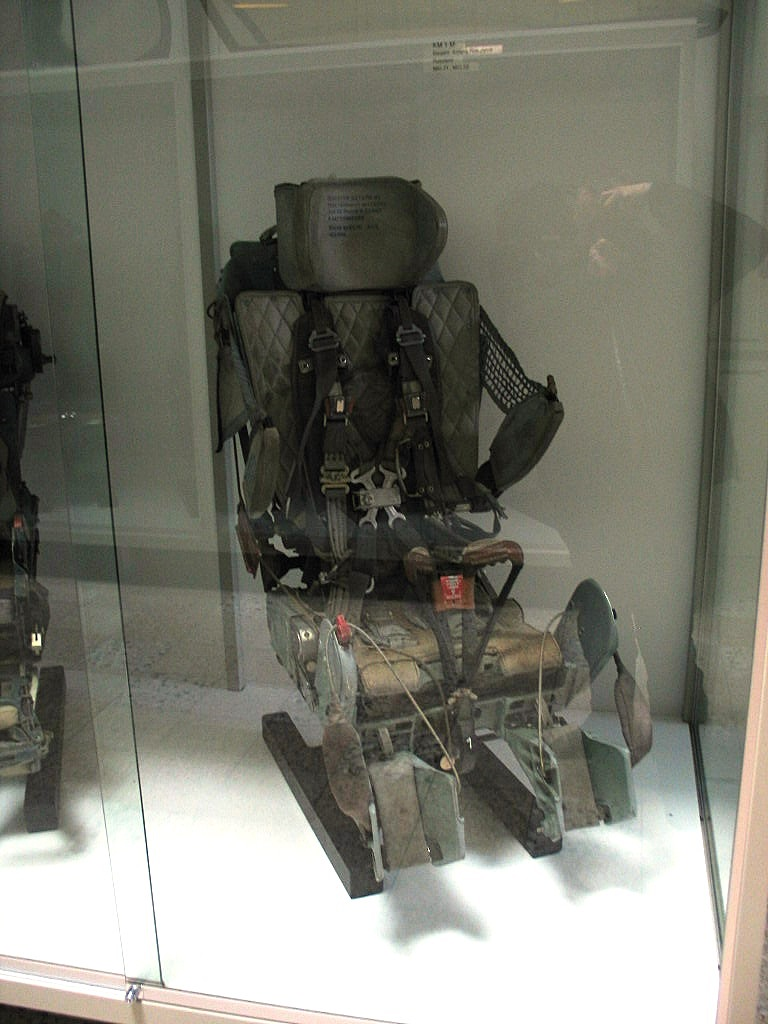 Ejector seat - own work by Paul Hermans under GFDL -cc-by-sa